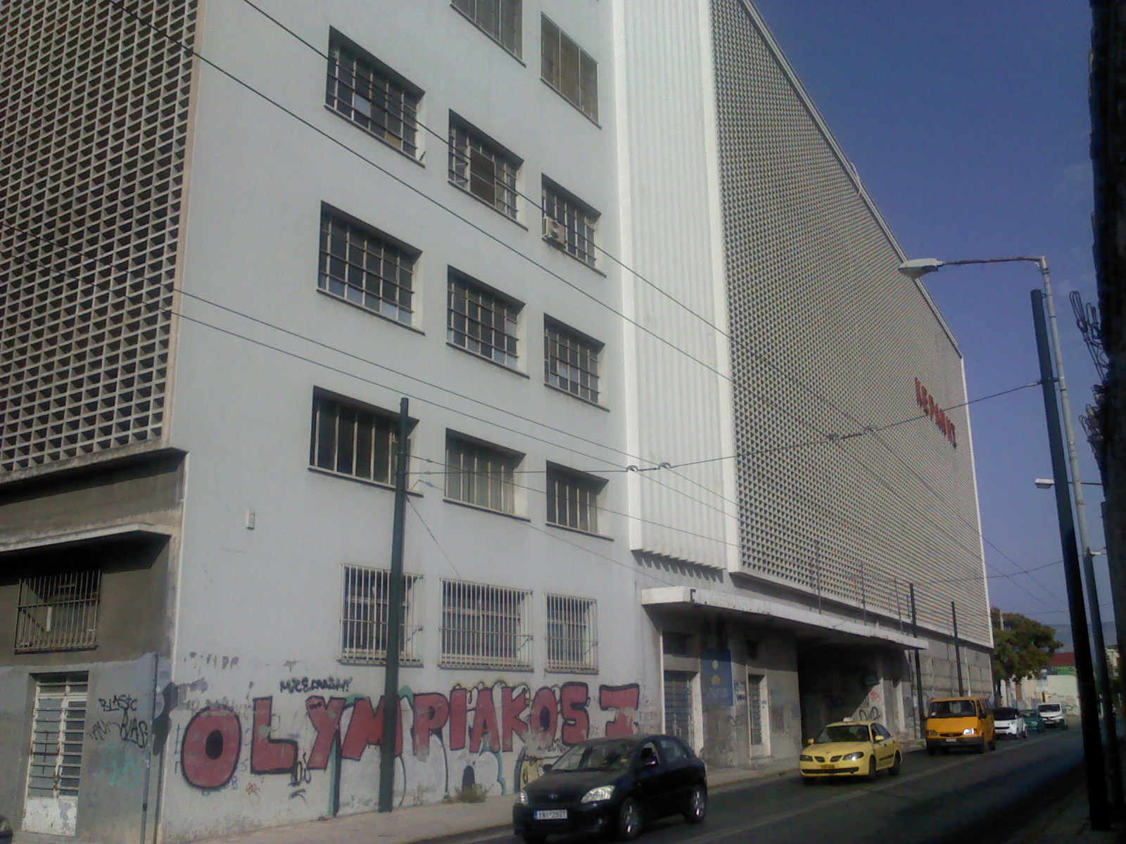 Keranis_factory